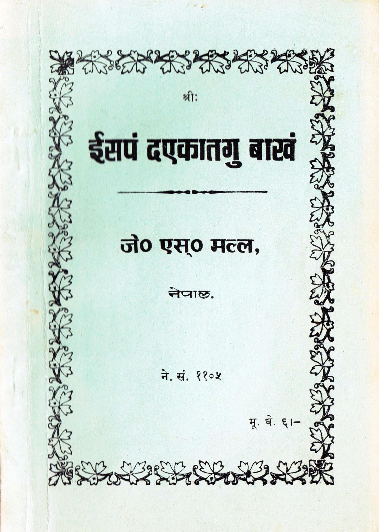 Cover of Aesop's Fables in Nepal Bhasa by JS Malla.